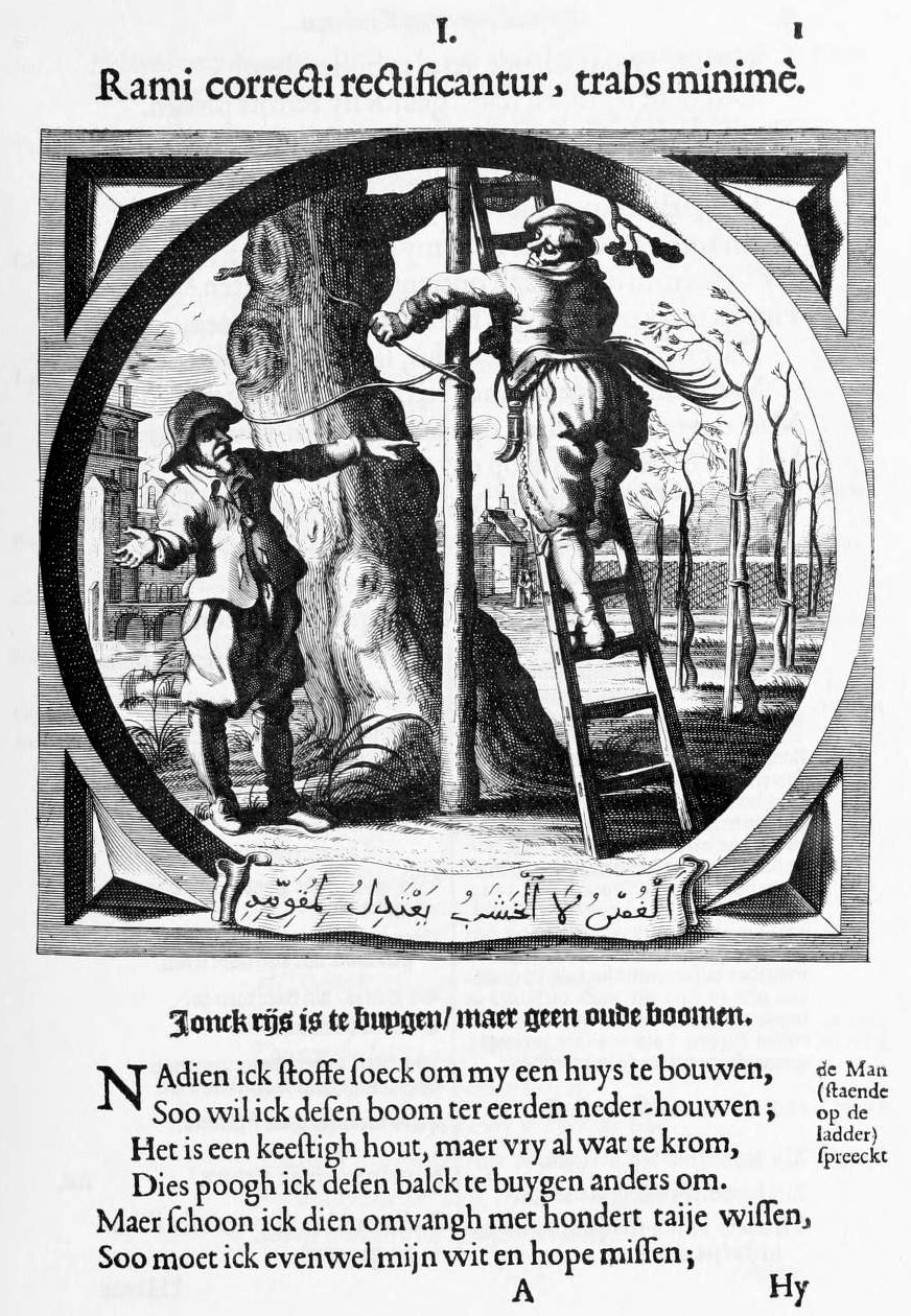 Emblem from "Spiegel van den ouden ende nieuven tijdt" (Mirror of old and new times), a book of emblems by Jacob Cats, Amsterdam 1632.